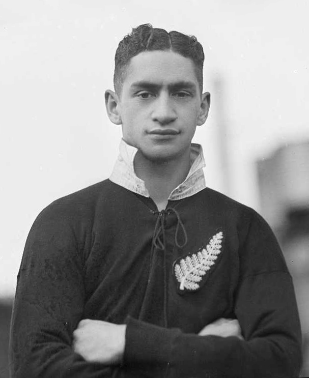 Photograph of New Zealand Maori rugby player Jack Hemi, taken in 1935 by Crown Studio Ltd of Wellington.